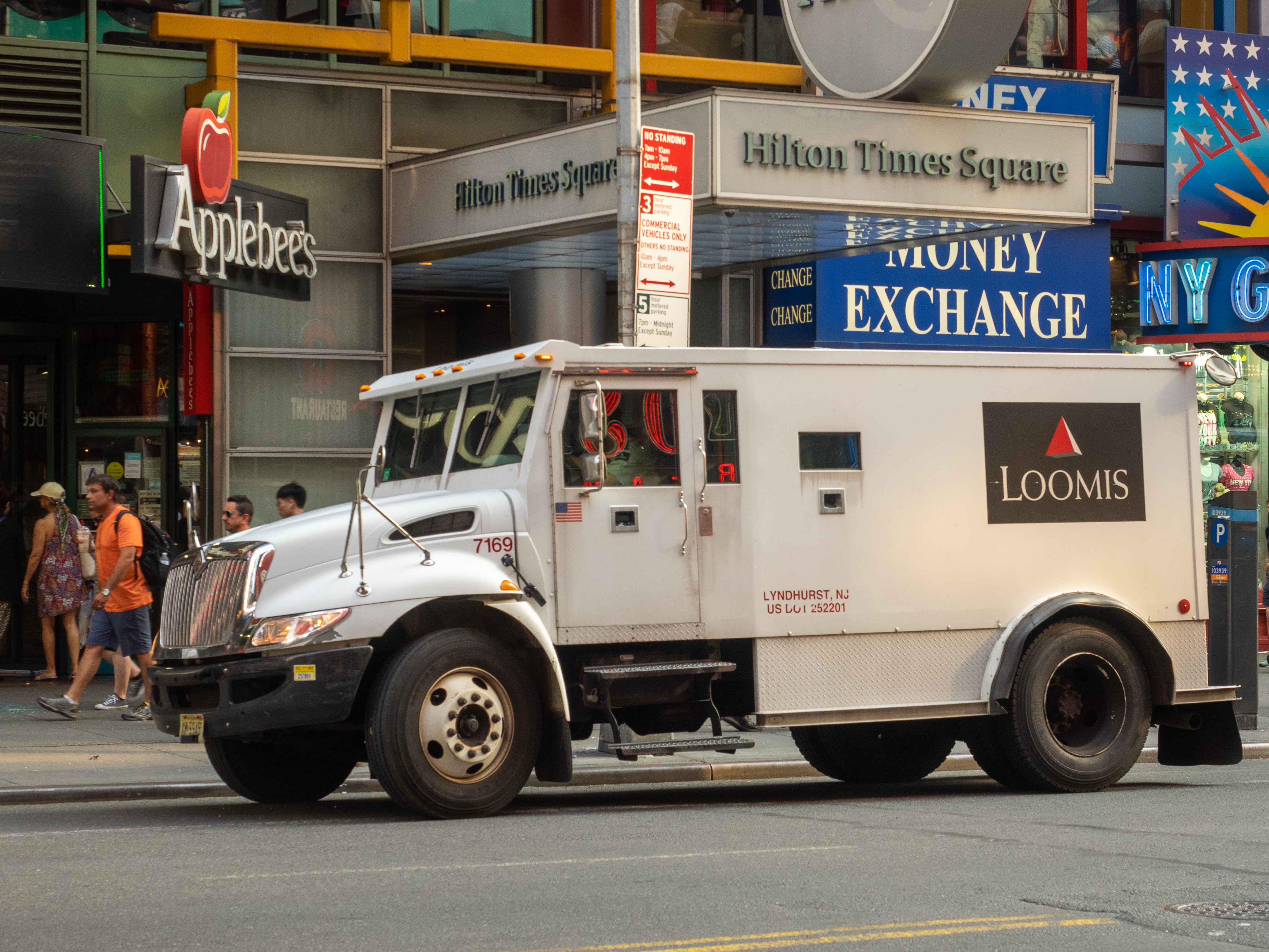 Theater District, Midtown Manhattan, NYC